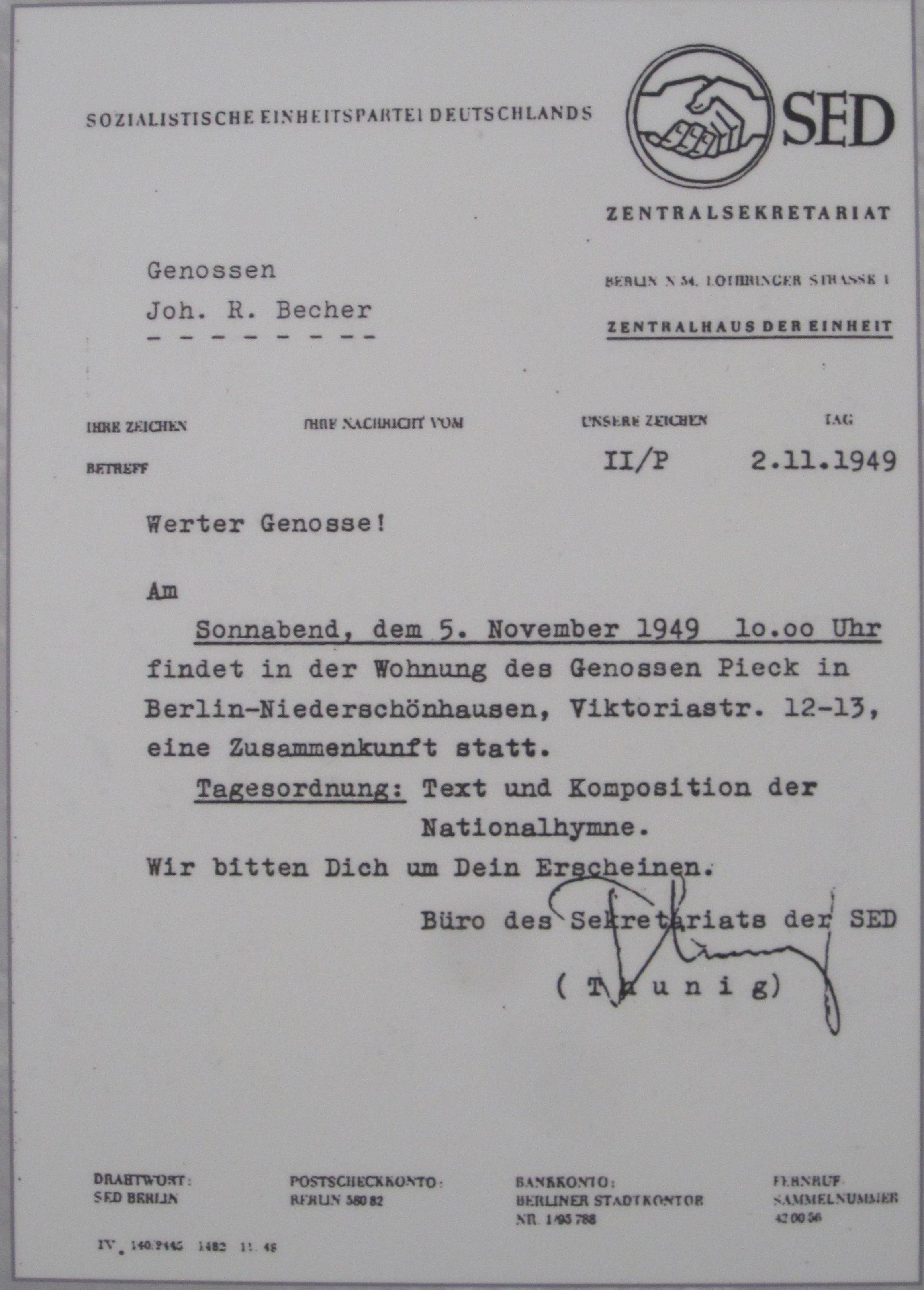 Letter of November 2nd 1949 from DDR-President Wilhelm Pieck's office to the poet of the DDR-National-Anthem Johannes R. Becher belonging the decision of the melody.